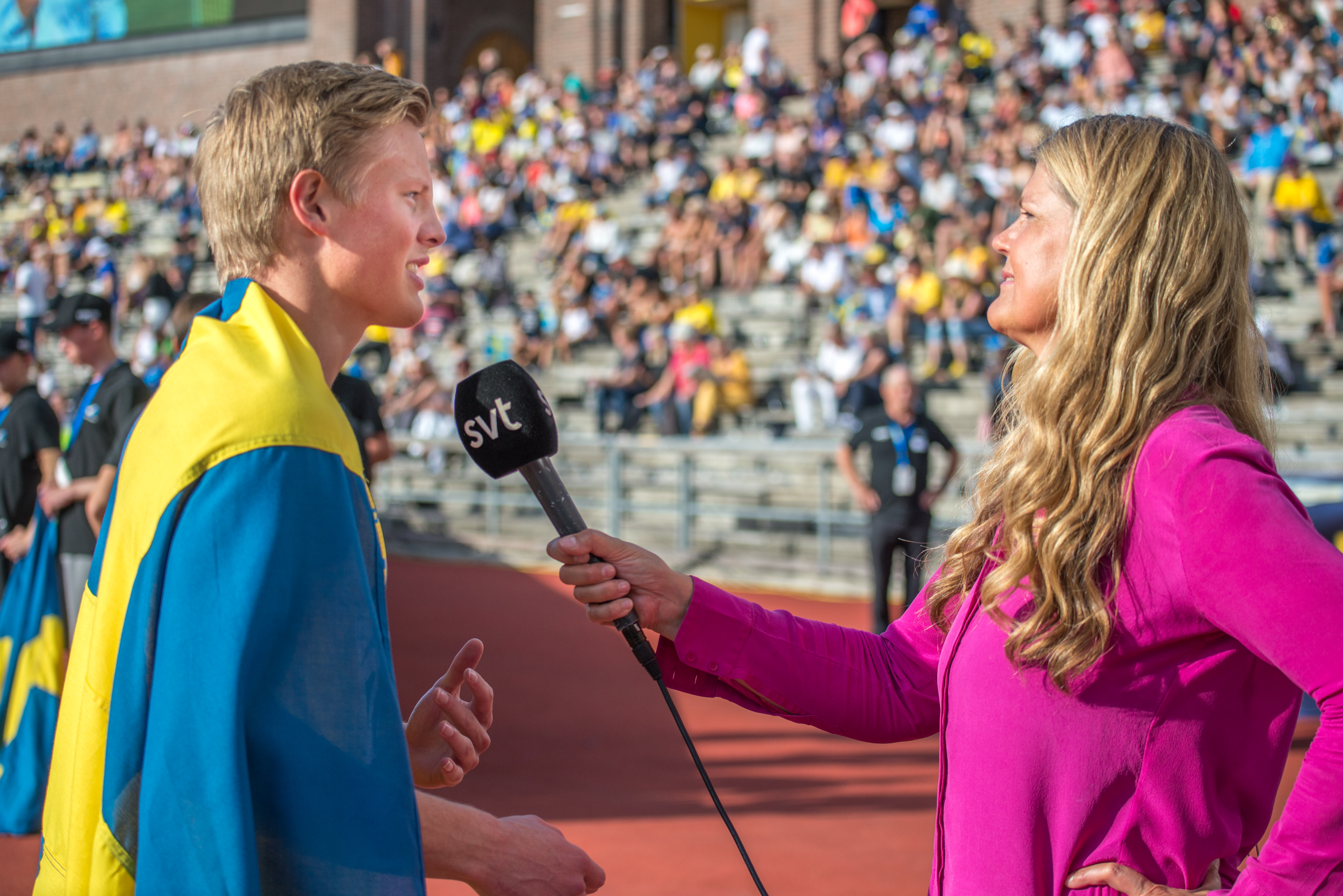 Henrik Larsson and Marie Lehmann during the Finland-Sweden athletics international 2019 at the Stockholm Stadium in August 2019.